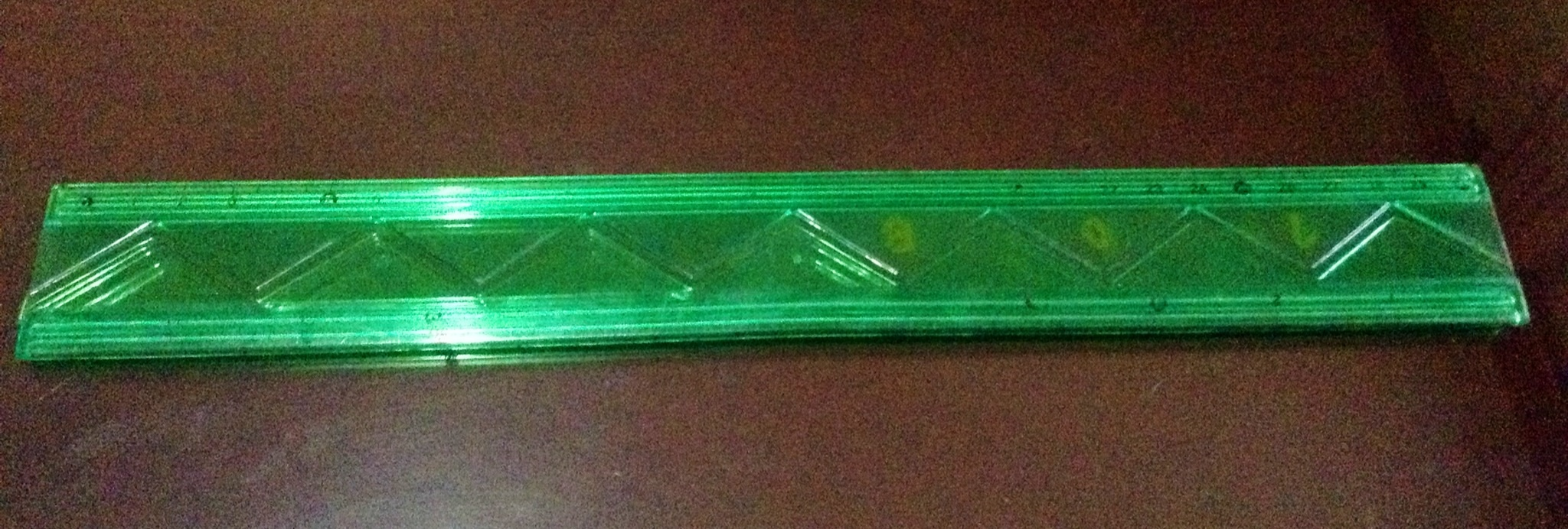 A green flexible ruler unstreched.